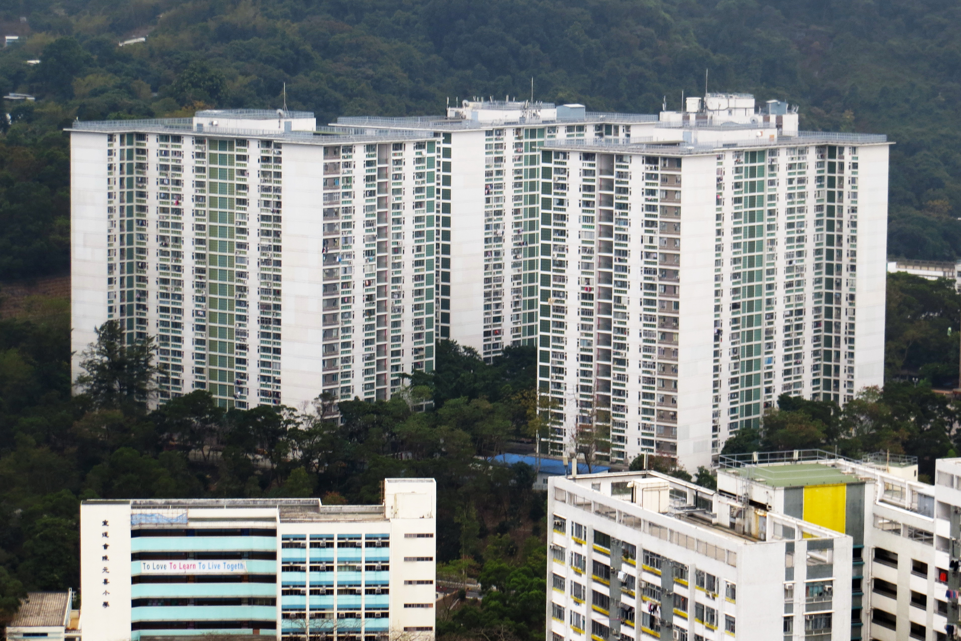 Sun Tin Wai estate, Shatin, New Territories, Hong Kong.